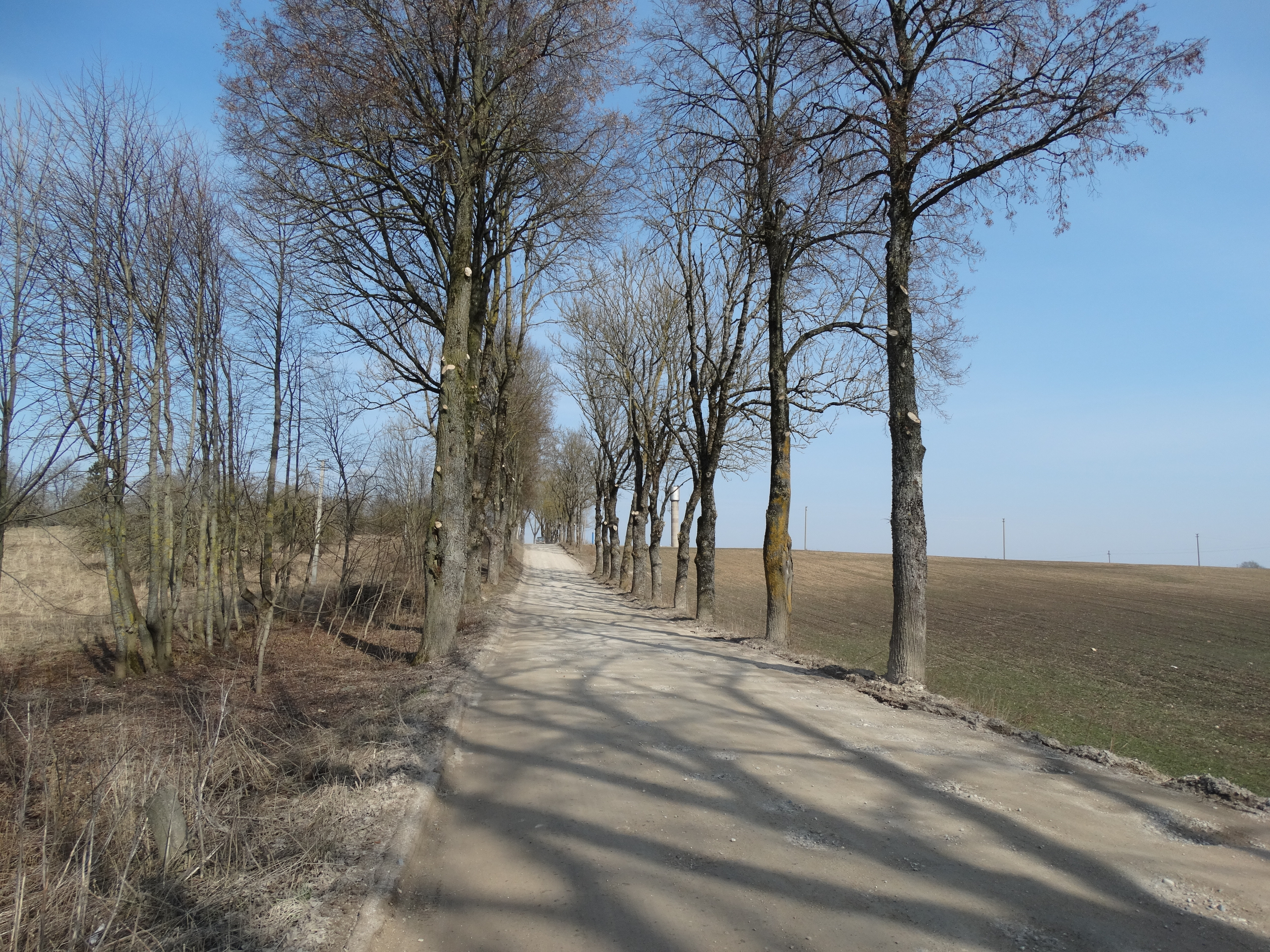 Antakalnis II, Ukmergė district, Lithuania